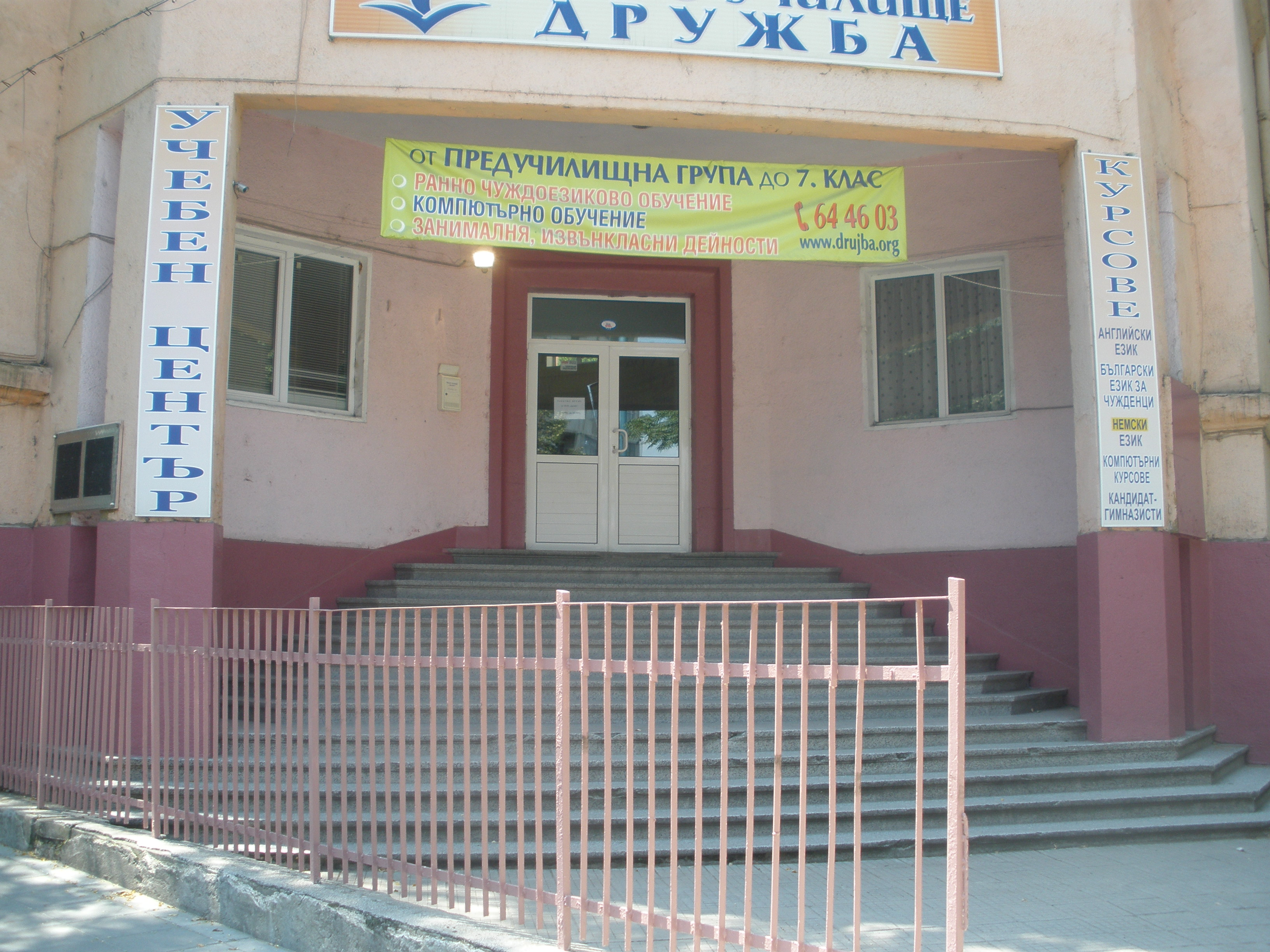 former Jewish elementry school in Plovdiv. Credit: Courtesy of Yossi Nevo .